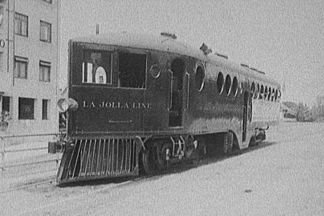 Gasoline motor car built by the McKeen Motor Car Company running from San Diego, La Hoya [sic], California, USA